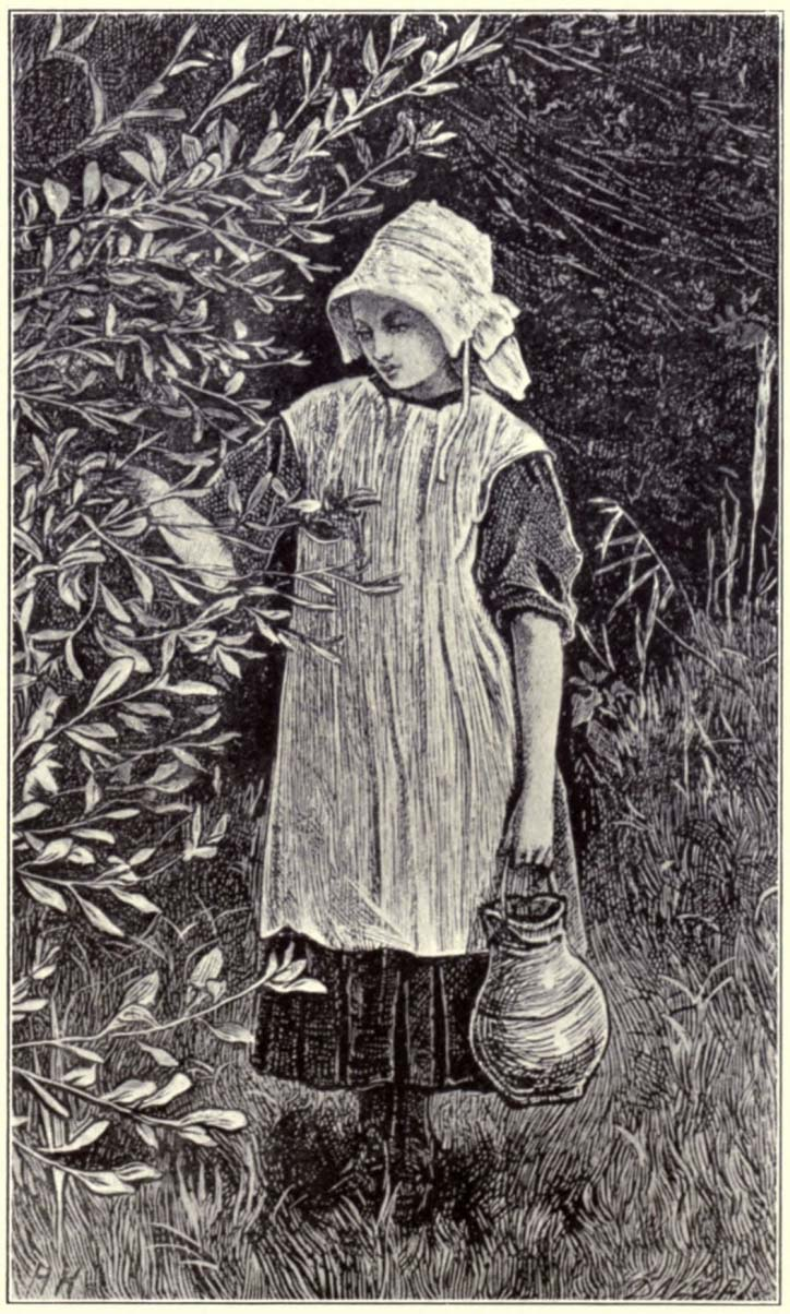 Lonely Jane